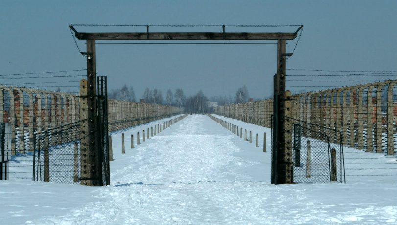 Gate in Auschwitz-Birkenau leading to crematorium IV and V.